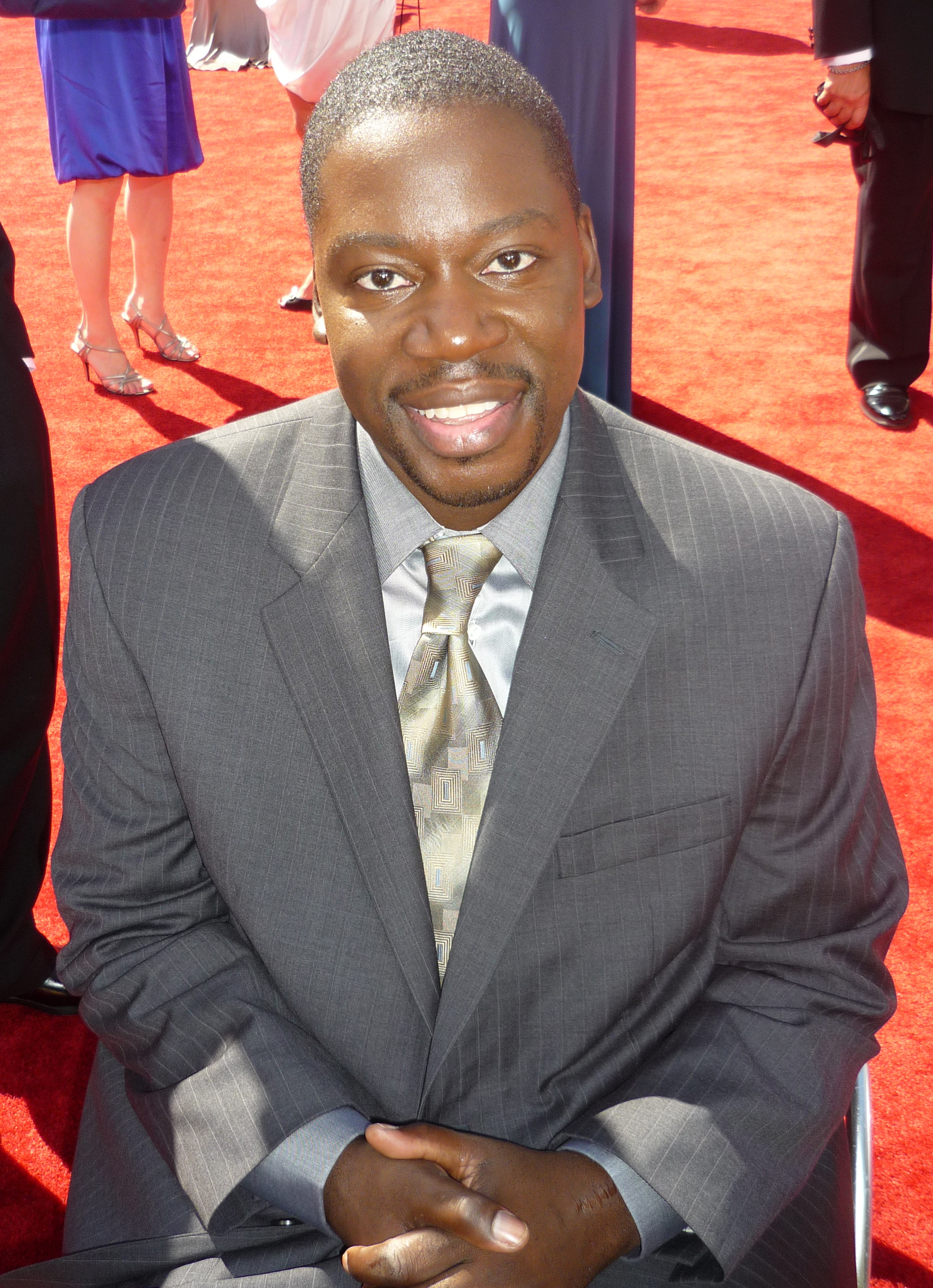 Daryl Mitchell at the Emmys in September 2009.